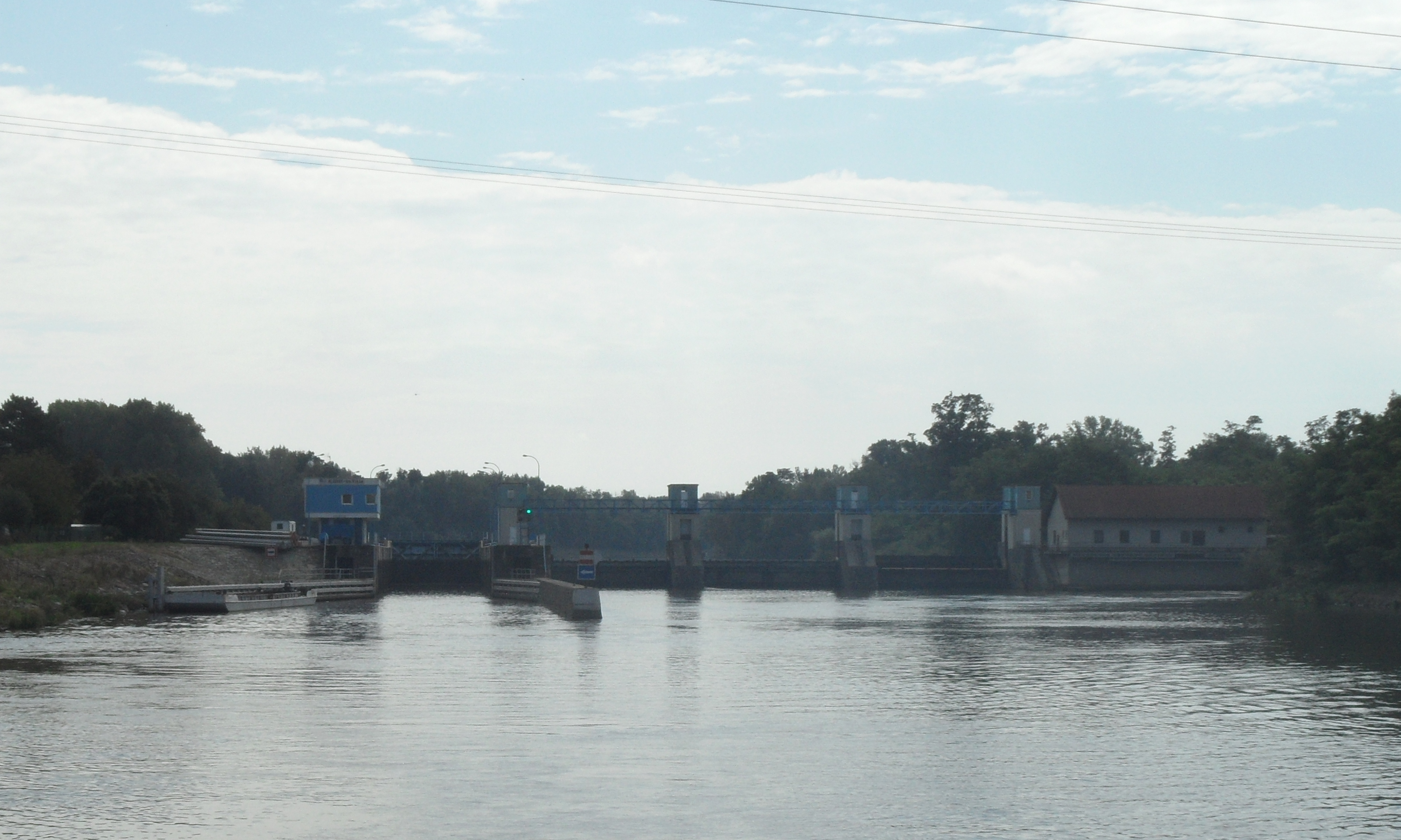 Lock Klavary F. Overview: Direction from Poděbrady, Kolín District, the Czech Republic.